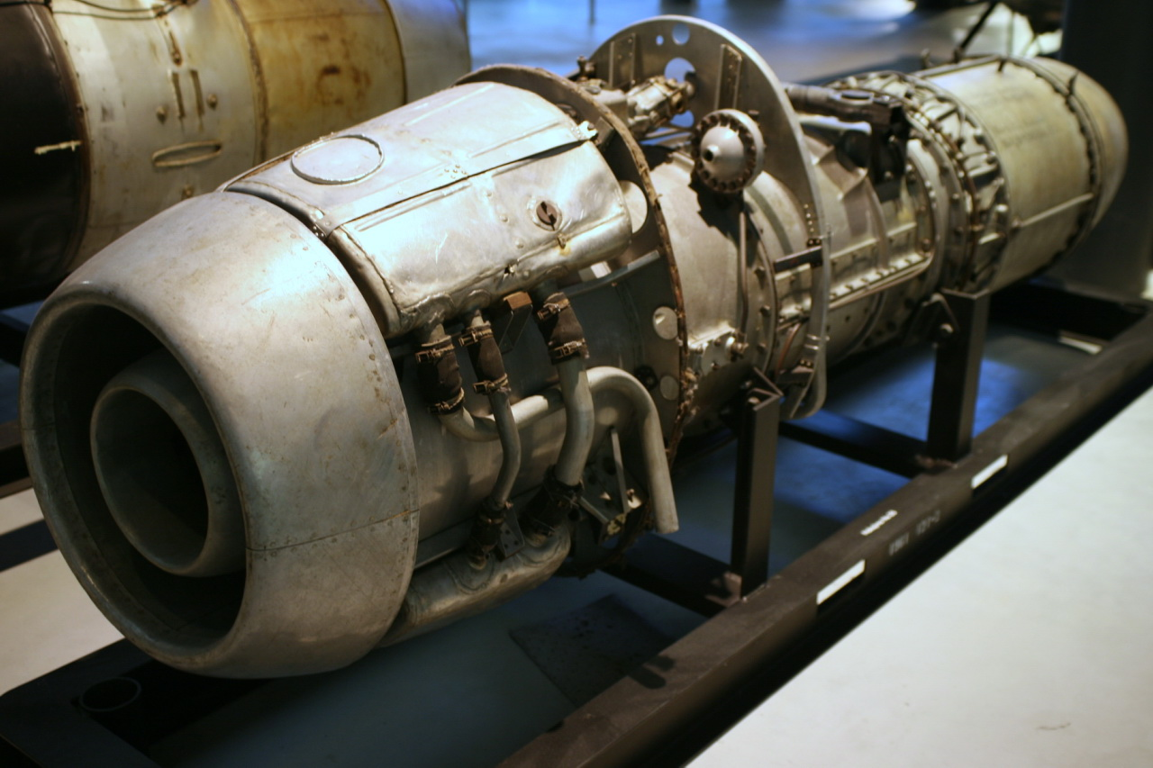 Ishikawajima Ne-20 engine